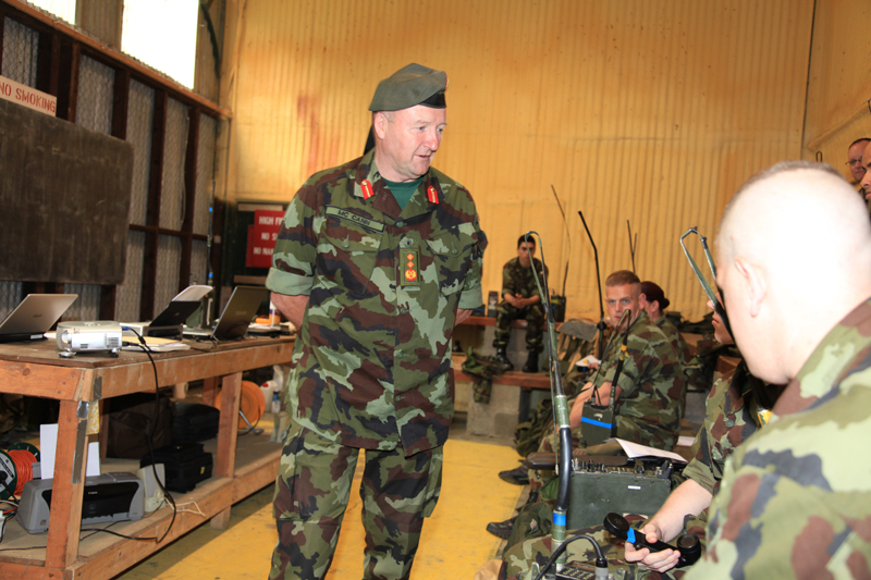 Chief of Staff Lt Gen Sean Mc Cann, visiting the E Bde RDF Annual Camp in Glen of Imall